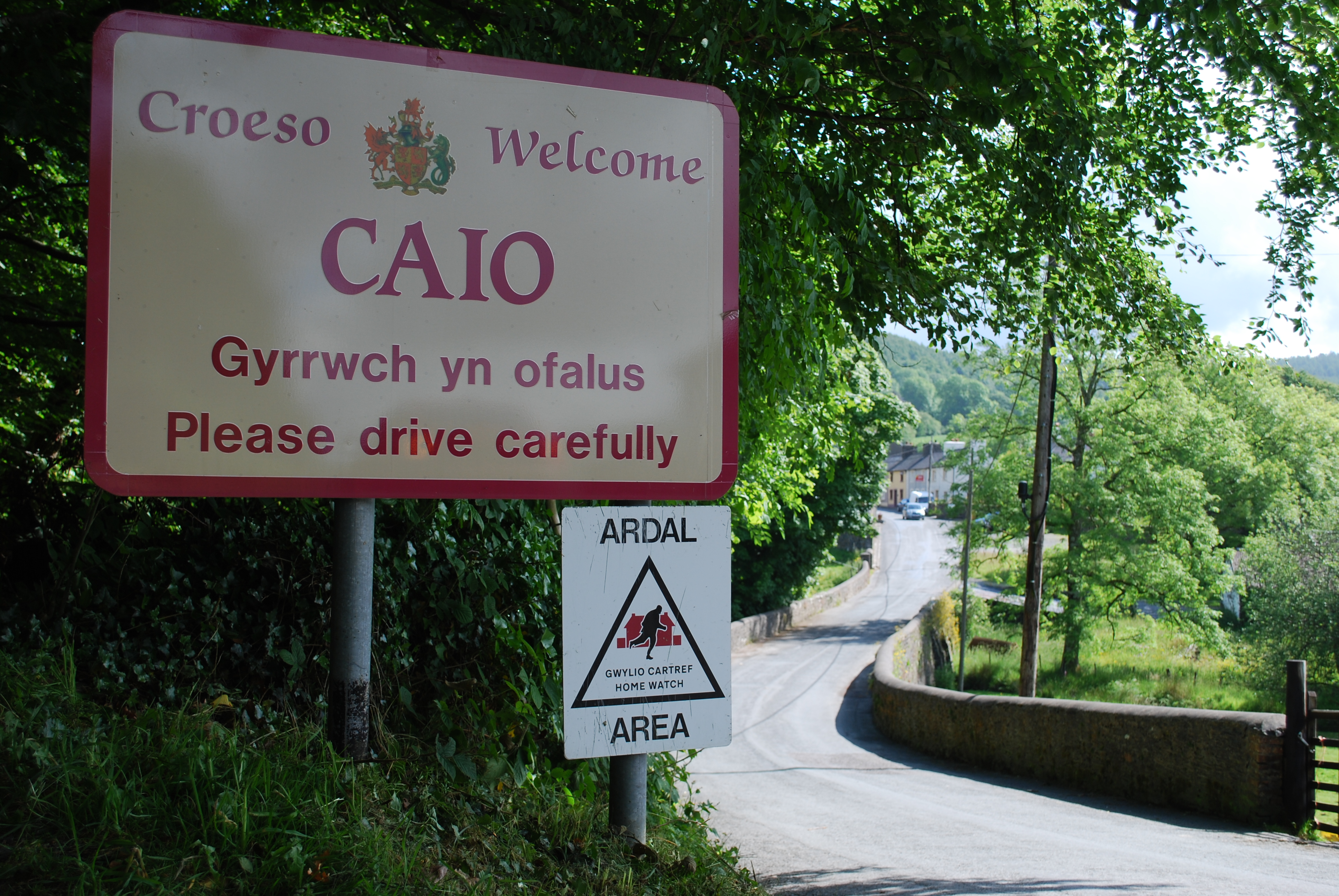 Caio village sign